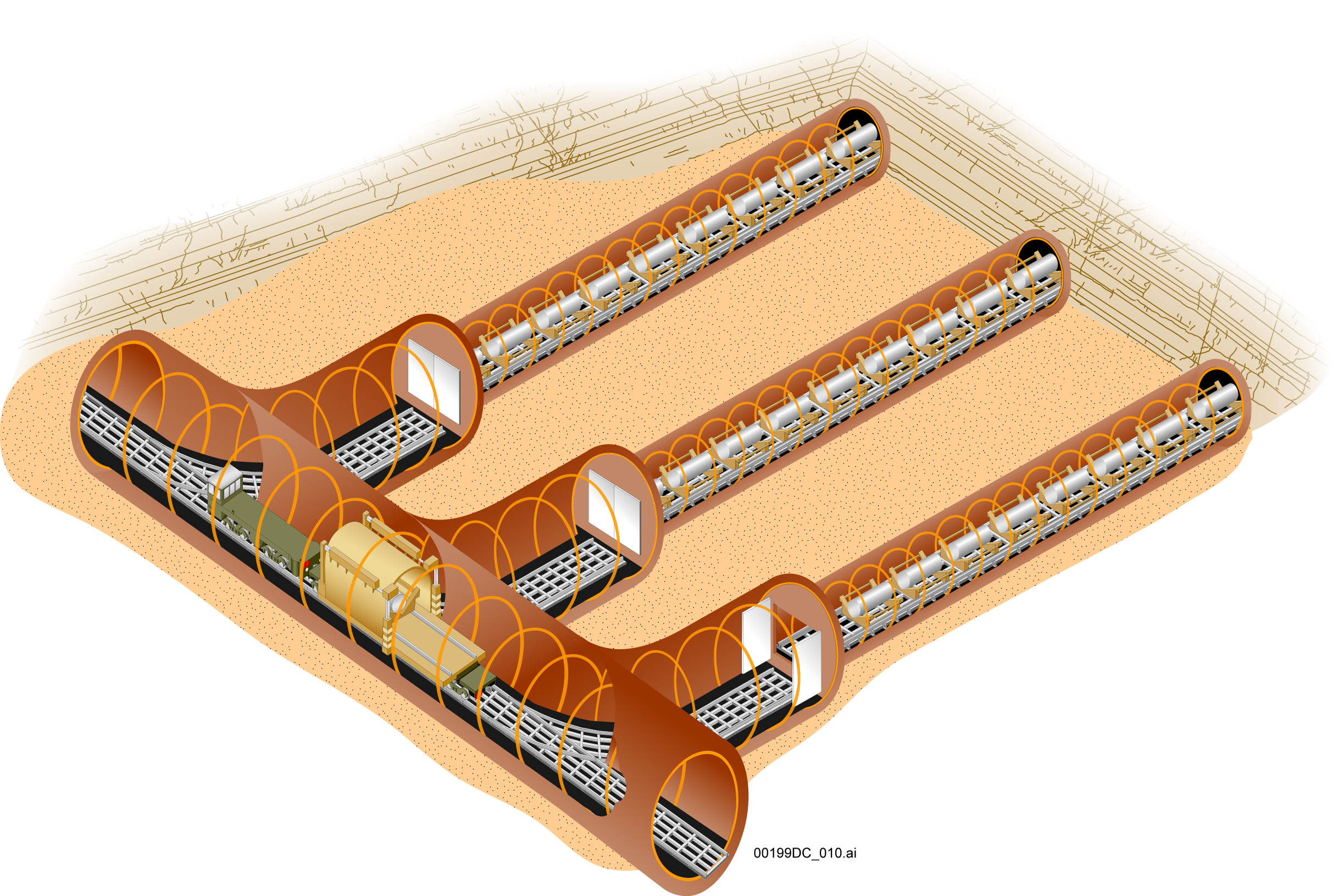 Proposed waste storage tunnel design for the Yucca Mountain nuclear waste depository. "The repository would be a series of emplacement drifts where waste packages would be emplaced and monitored."